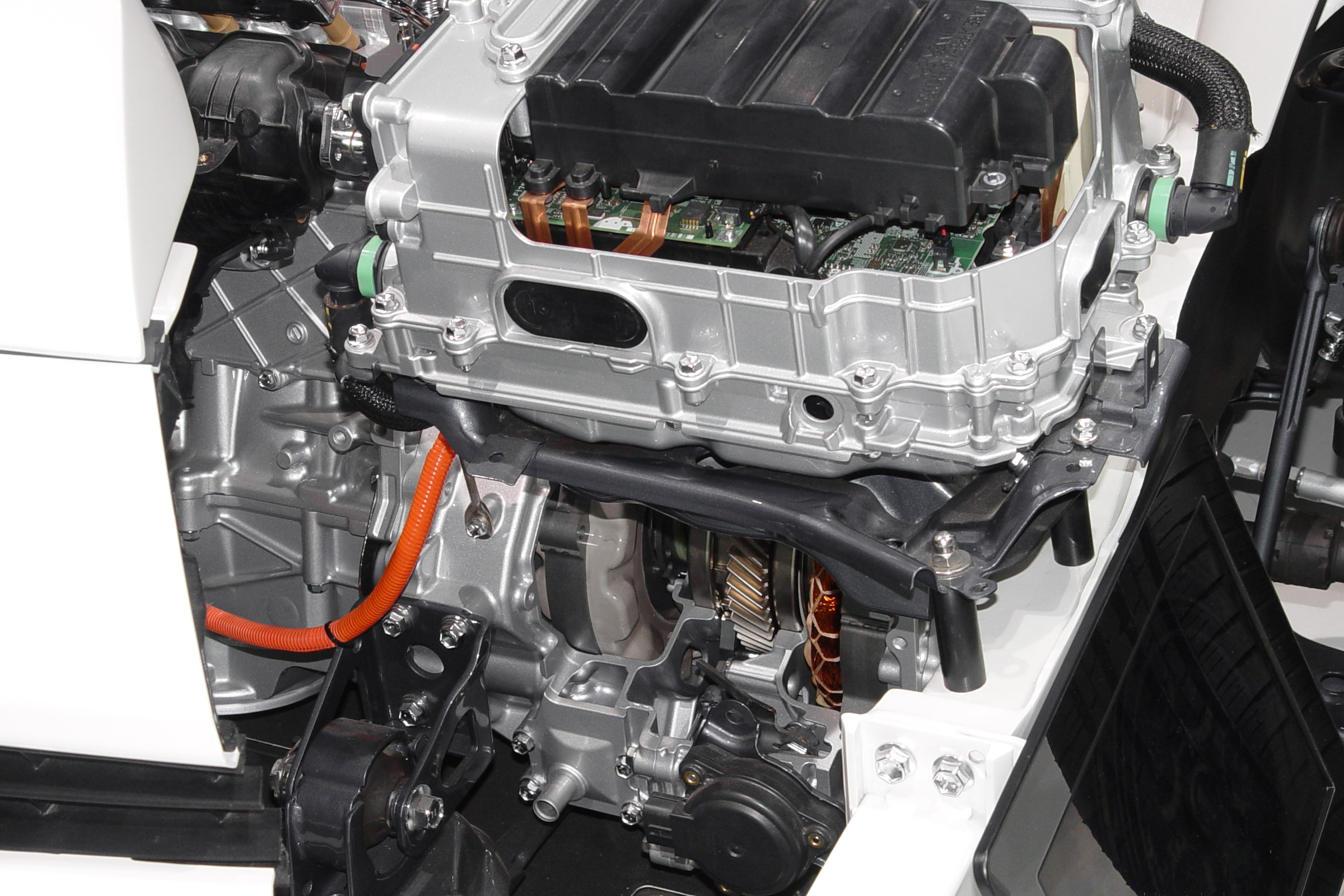 Toyota Prius 3, inverter with part of drive